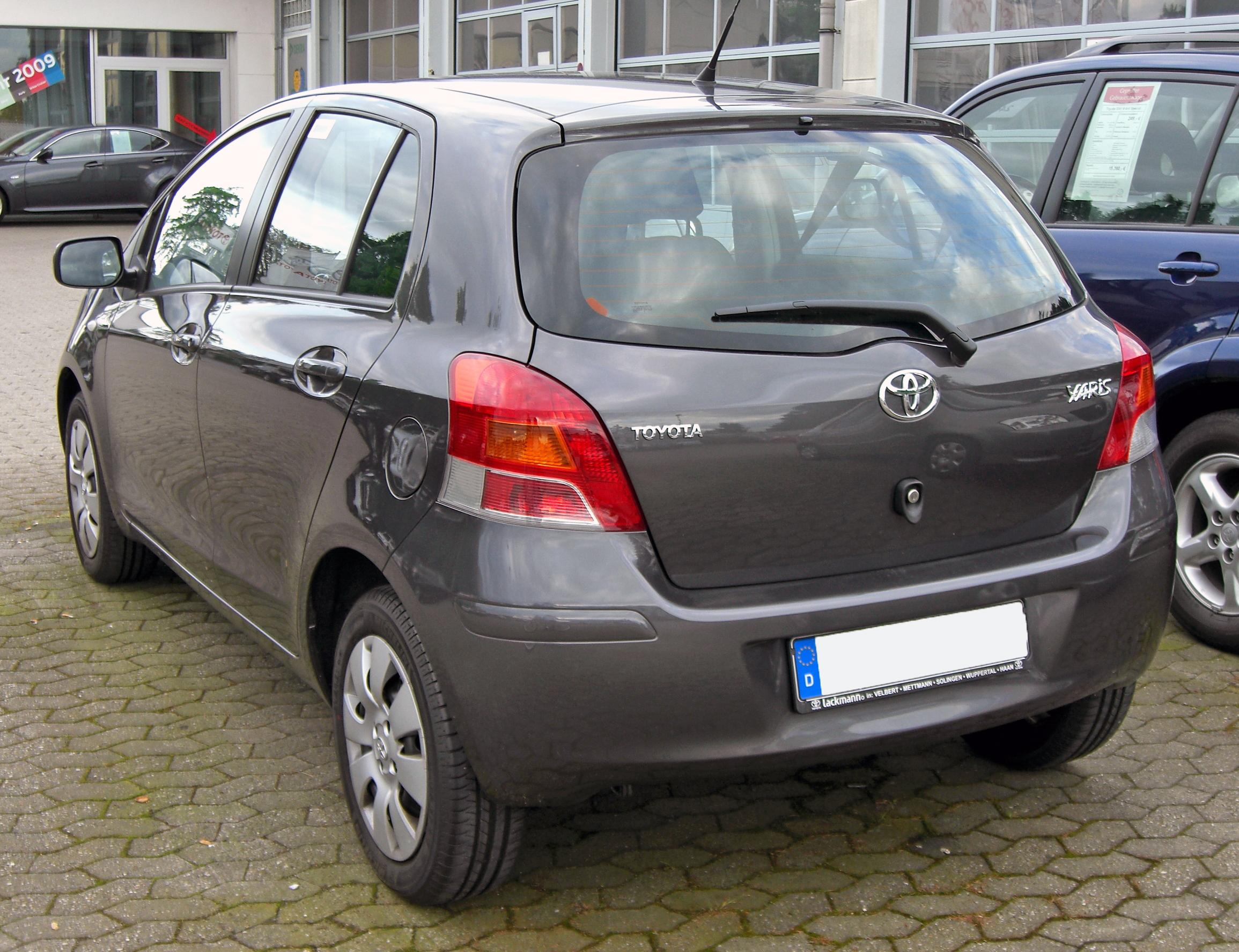 Toyota Yaris II Facelift